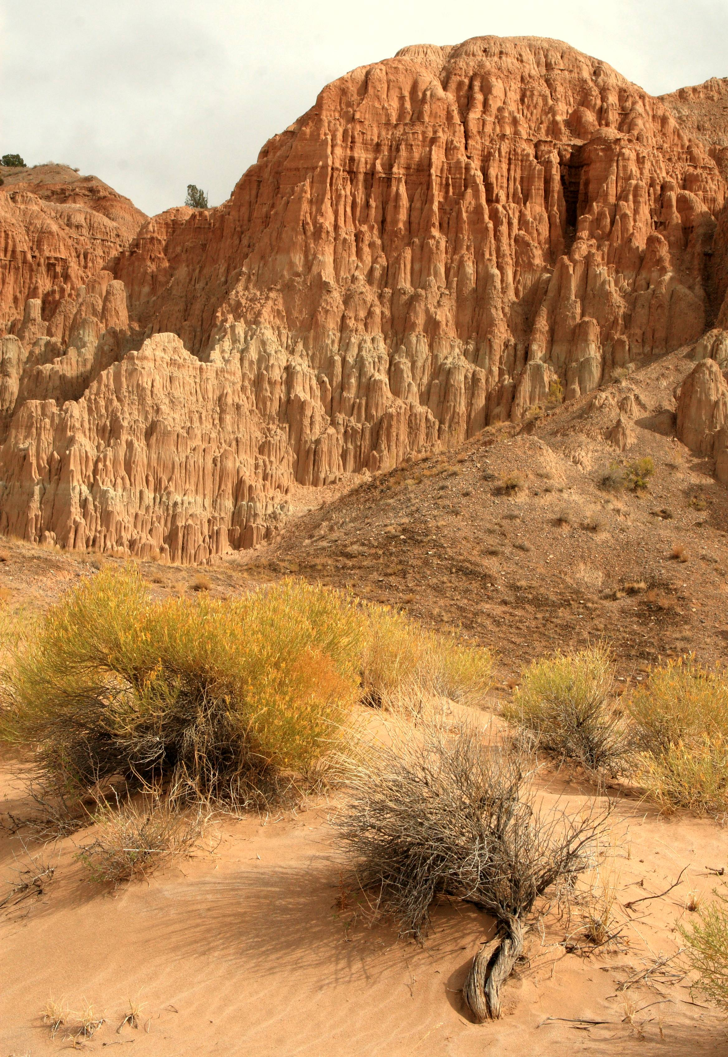 Cathedral Gorge is a Nevada state park about 80 miles south of Great Basin National Park in eastern Nevada and 80 miles west of Cedar City, Utah. It is a little out of the way but well worth a detour. Cathedral Gorge was formed by lake that dried up many years ago and wind and rain carved out the canyon. I took this photo on a snowy, cold day in October 2008.